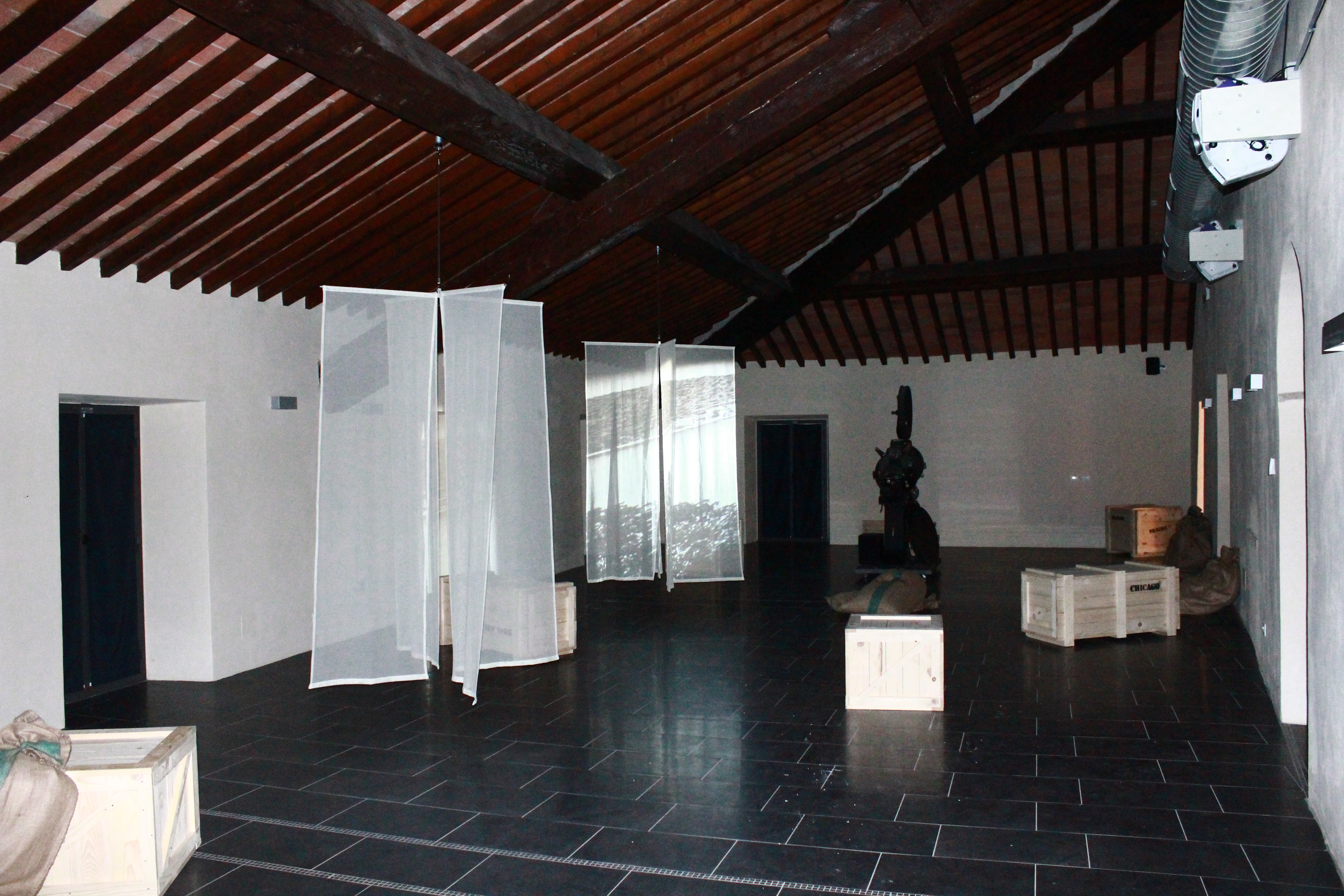 MAGMA Follonica